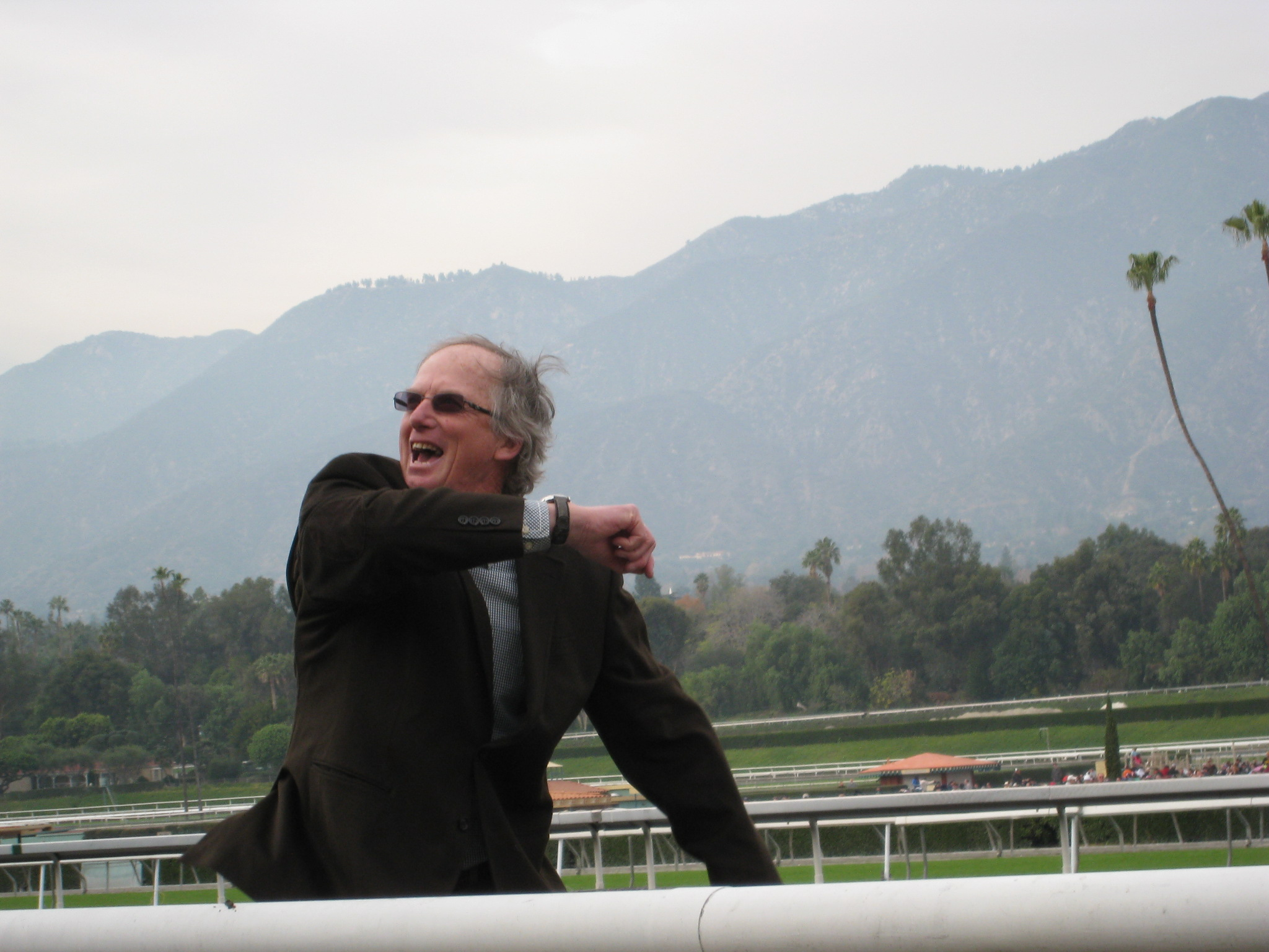 A jubilant John Shirreffs throws his baseball cap into the grand stand during Zenyatta's parade at Santa Anita Park on December, 26, 2009.